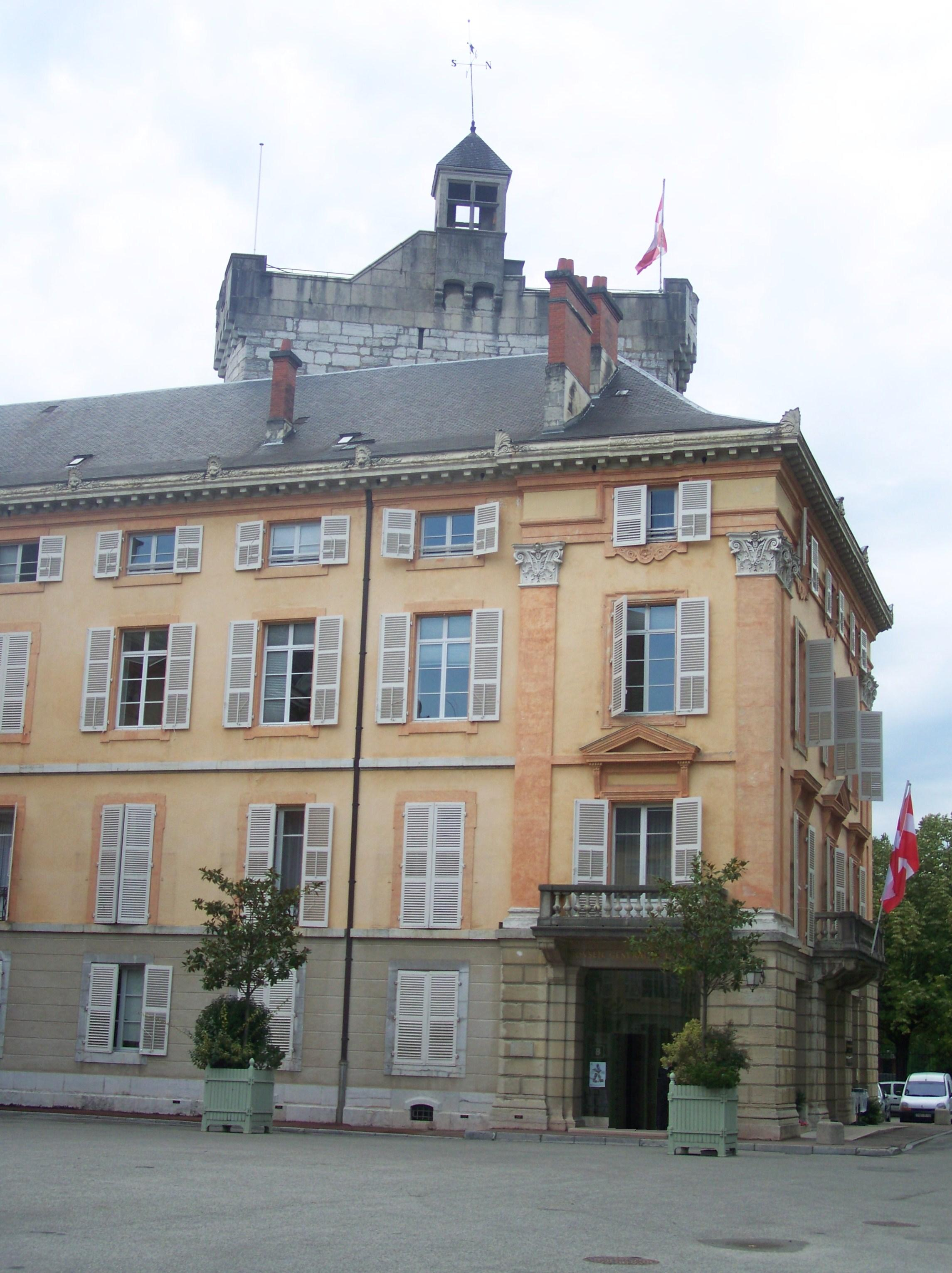 Head office of French department of Savoie conseil général (general council) in Chambéry.